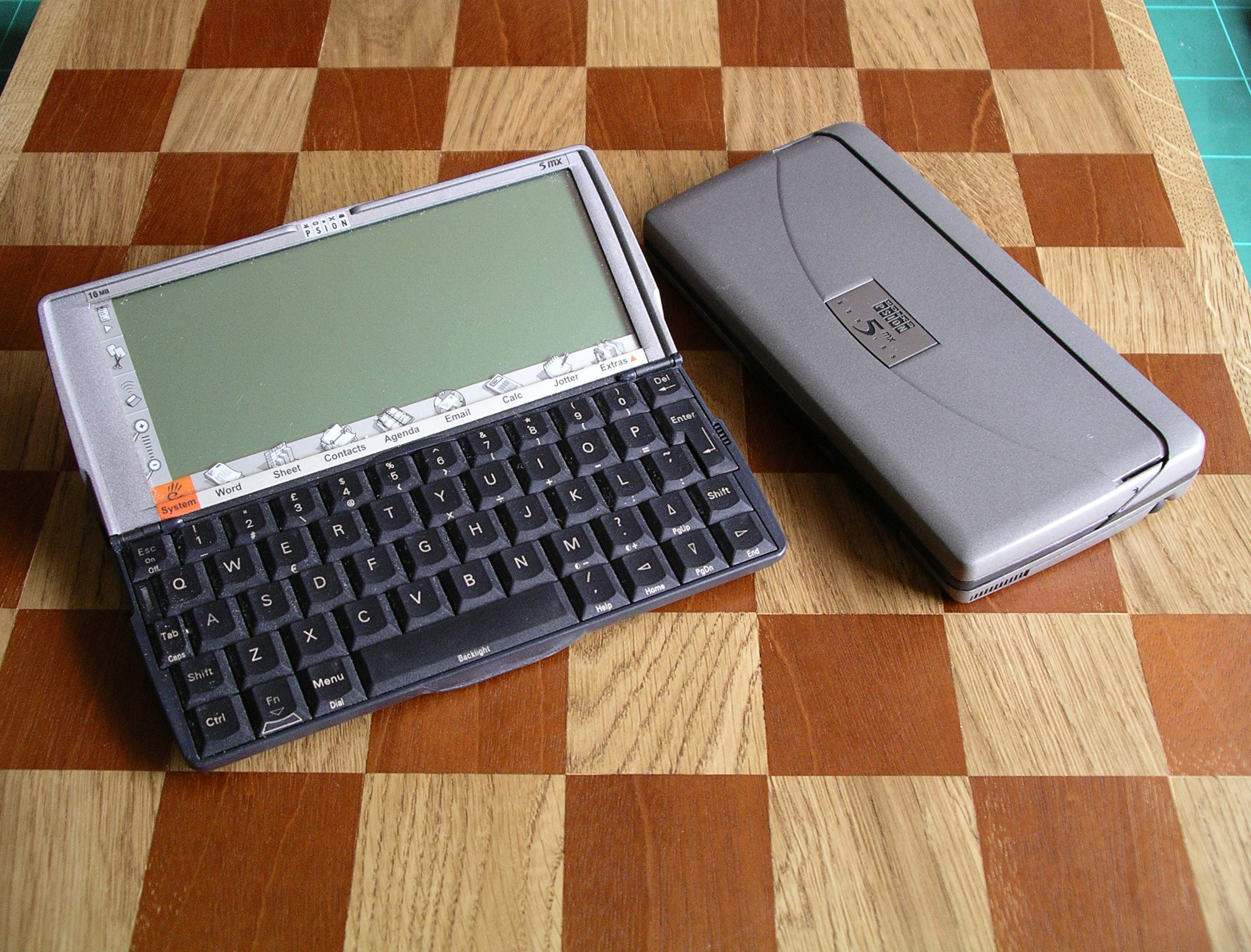 Photo taken by me on 17 October 2006 of one open Psion 5mx and one closed Psion 5mx. The background has 5 cm squares.